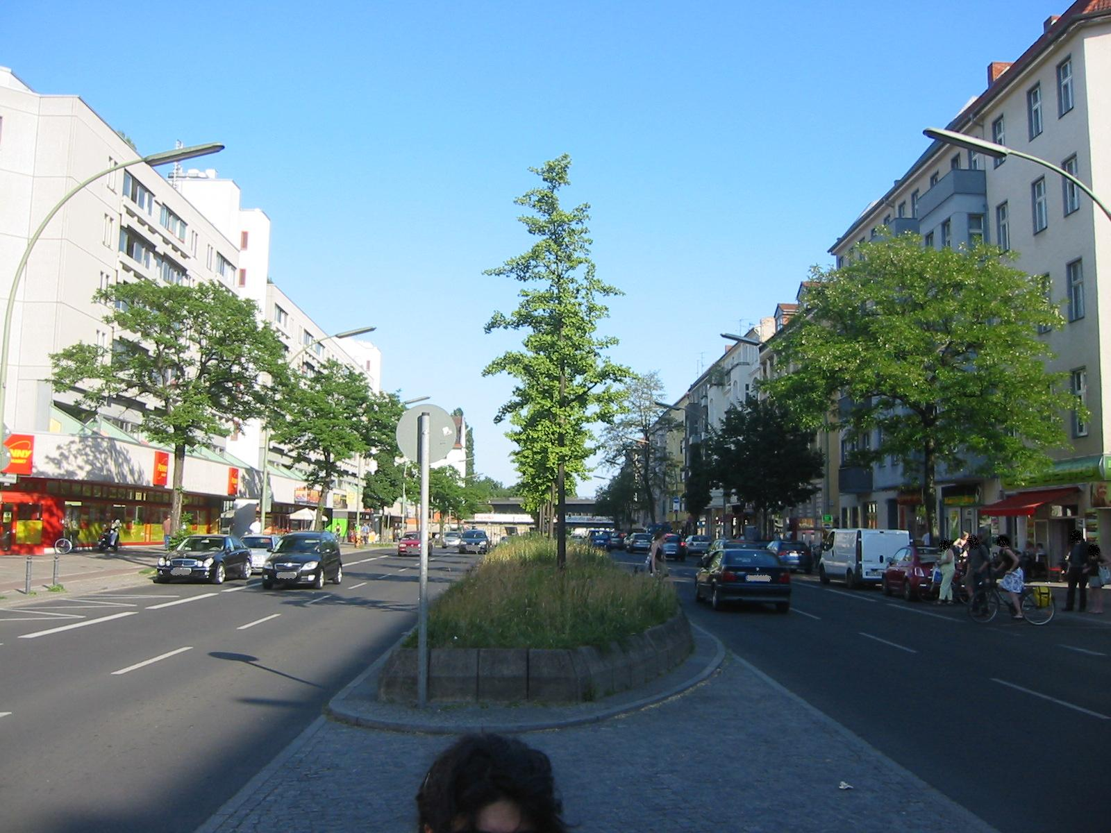 Berlin-Schöneberg Dominicusstraße